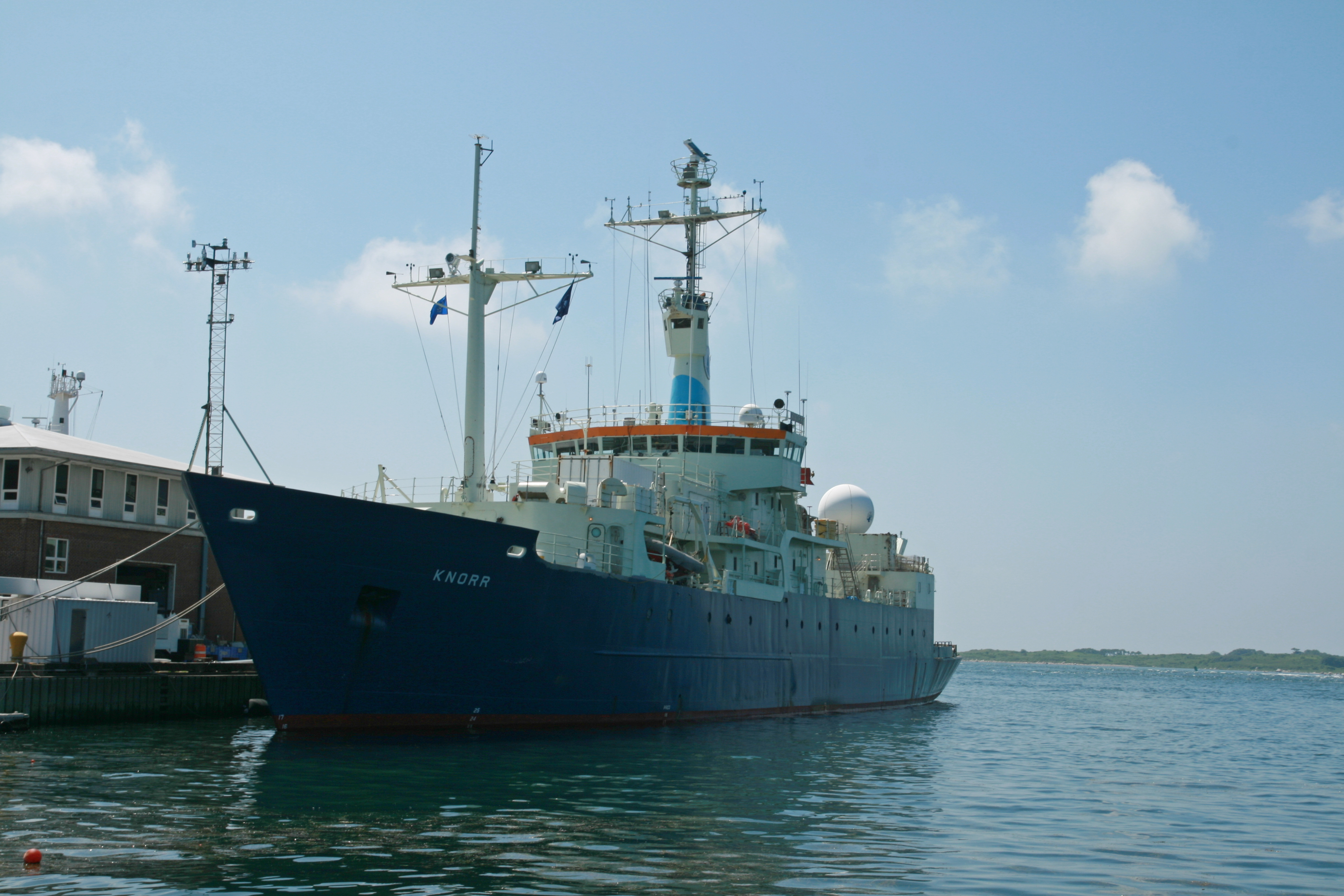 R/V Knorr at the WHOI dock in Woods Hole, MA.